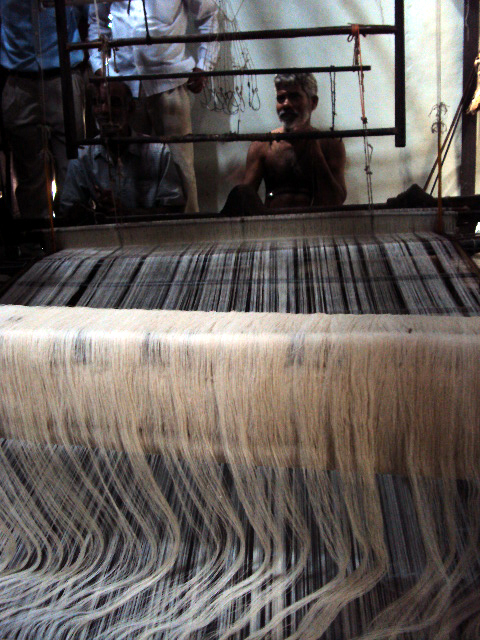 Handloom Khadi weaving at Ponduru, Srikakulam, Andhra Pradesh